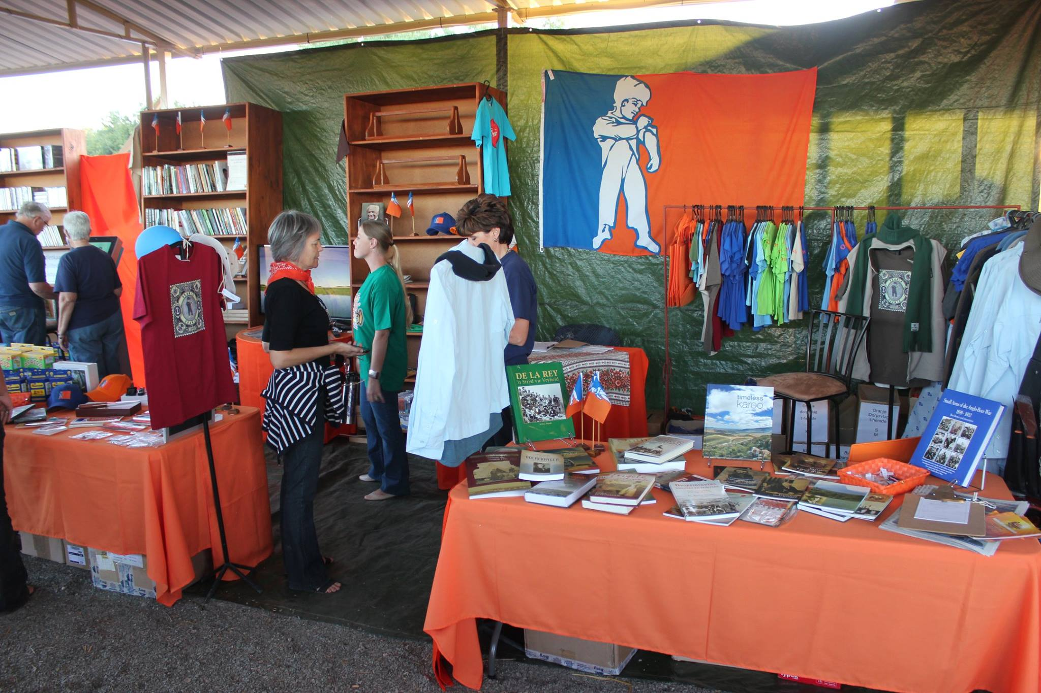 Orania Movement stand at the local Karnaval.